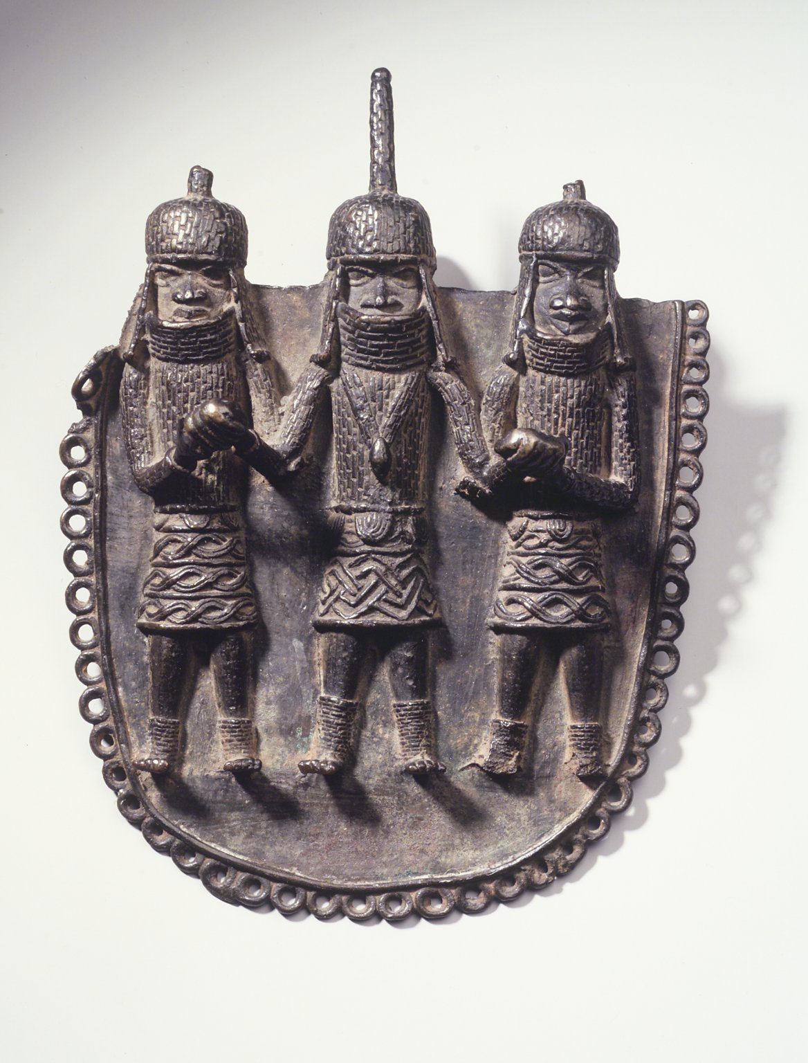 Semicircular lost-wax(?) cast ornament depicting 3 figures in high relief. They are dressed in skirted textured costumes with beaded high collars. Each wears a domed headdress with shoulder-length side flaps and a crown topped with dowel-like extension. Legs are adorned with multiple cast coral bead anklets. The edge of the ornament is finished with a row of small pierced circles. Overall condition is good. Back of plaque has the number 25601 painted in white and a cast-in image of a knife (maker's mark?). Small losses to metal structure, including fronts of feet of right figure and looped border element at top left corner. Extensions of crowns for right and left figures are broken off at top. Light surface dirt and some tiny white paint specks. To the left of the center figure's leg is a faint pale green corrosion drip. The central figure on this pendant represents the oba, or king, of Benin flanked by important court officials. The scene symbolizes support for the oba, who in turn sustains the nation. The pendant was worn by the oba on a belt around his waist at state events.